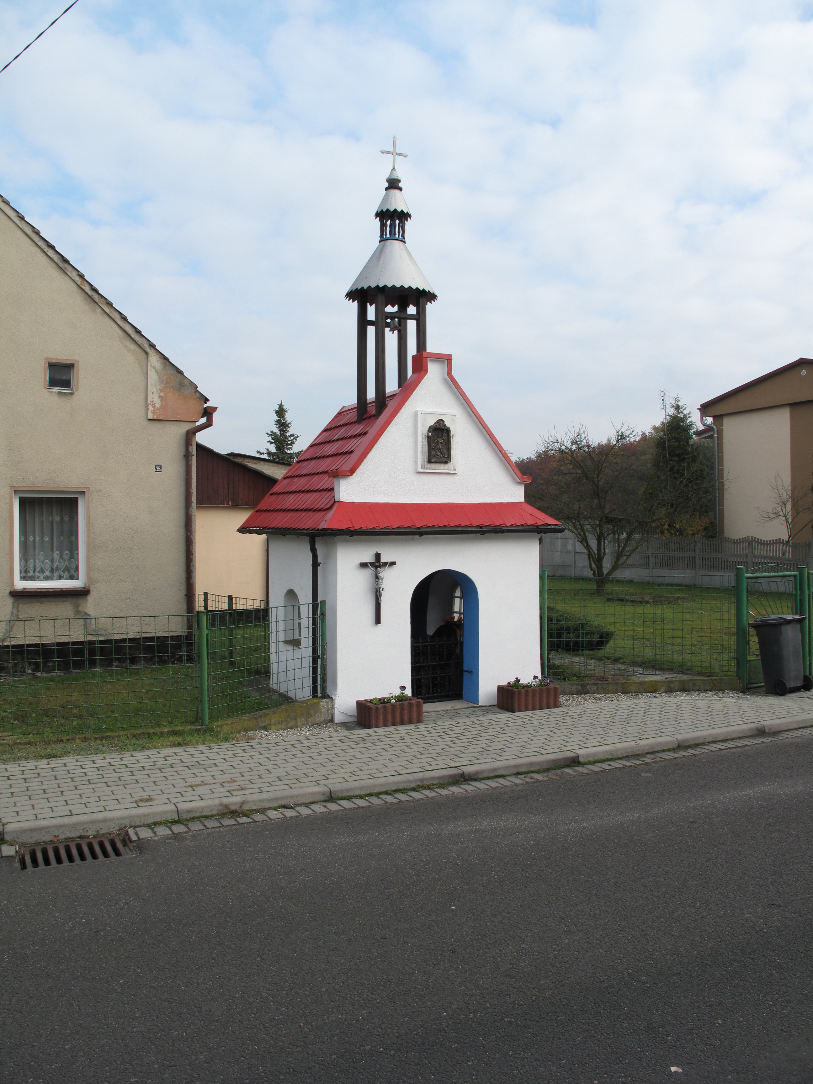 Grabówka, Kędzierzyn-Koźle County, Poland